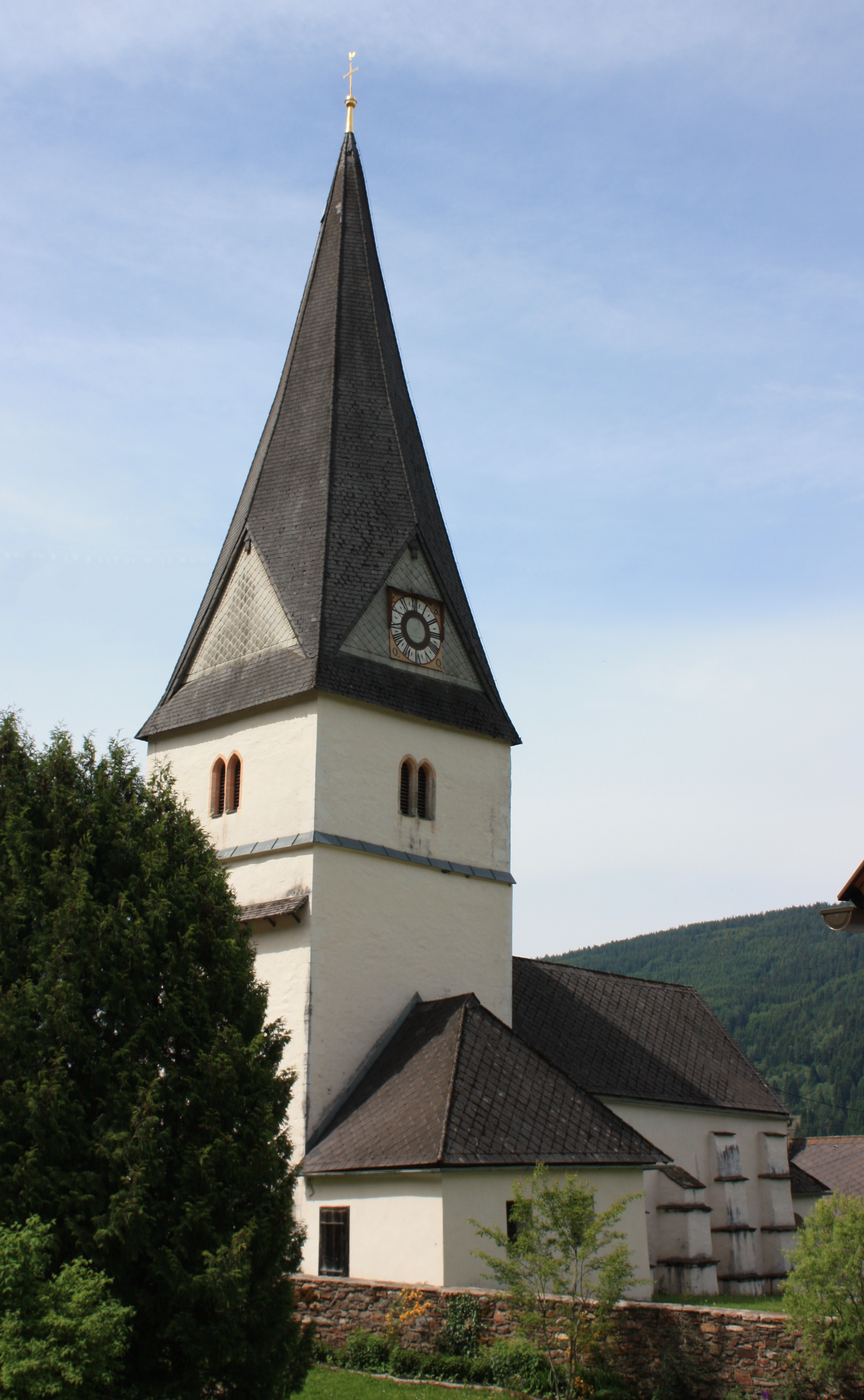 Parish-church of St Martin am Silberberg in the community of Hüttenberg